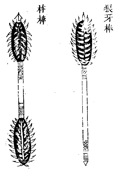 Bang - chinese weapon.